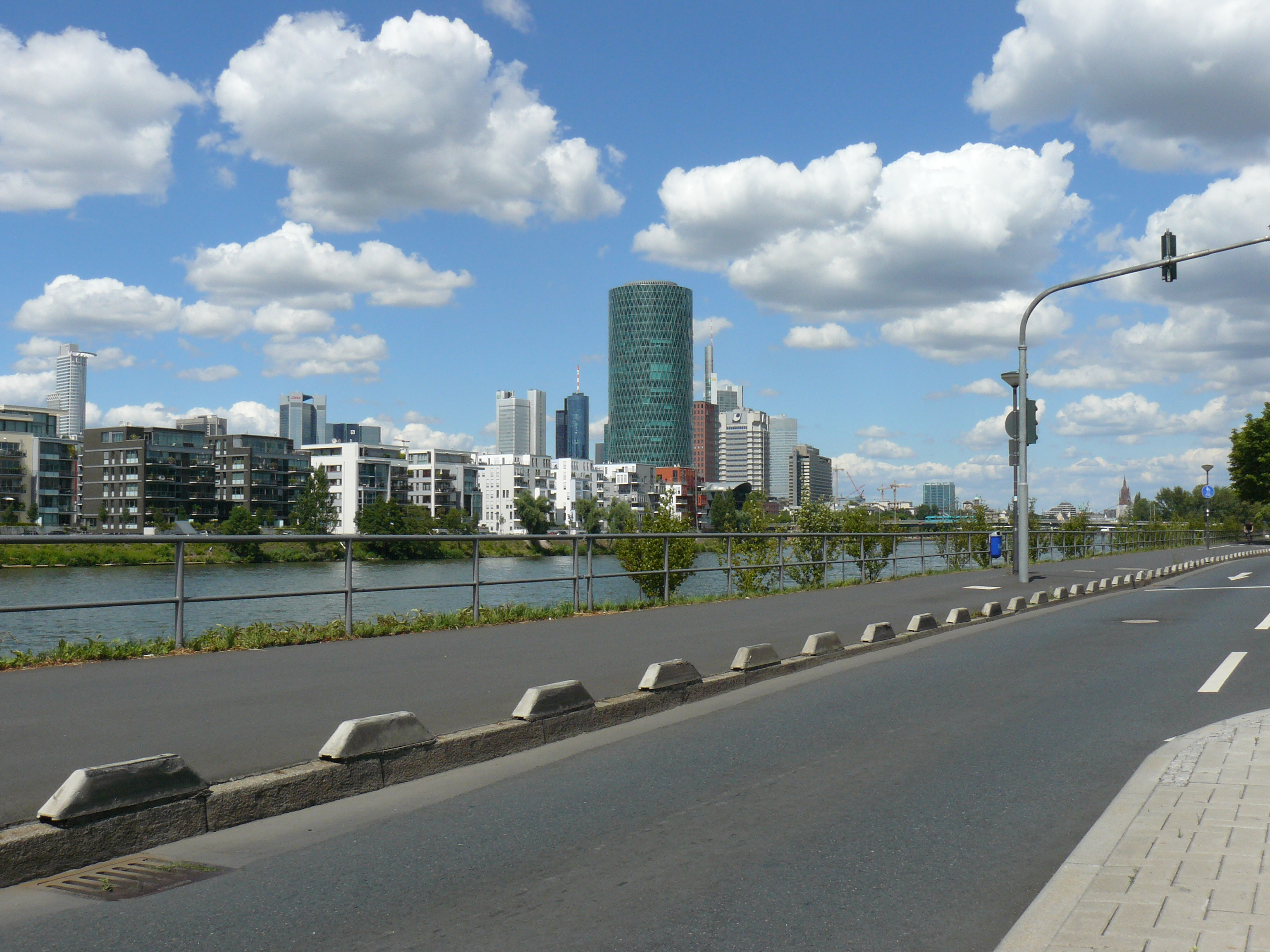 View from Theodor-Stern-Kai in Frankfurt-Sachsenhausen northeastwards. Carriageway, foot- and cycleway with “Frankfurter Hut” kerbs in the foreground, Westhafen in the background.